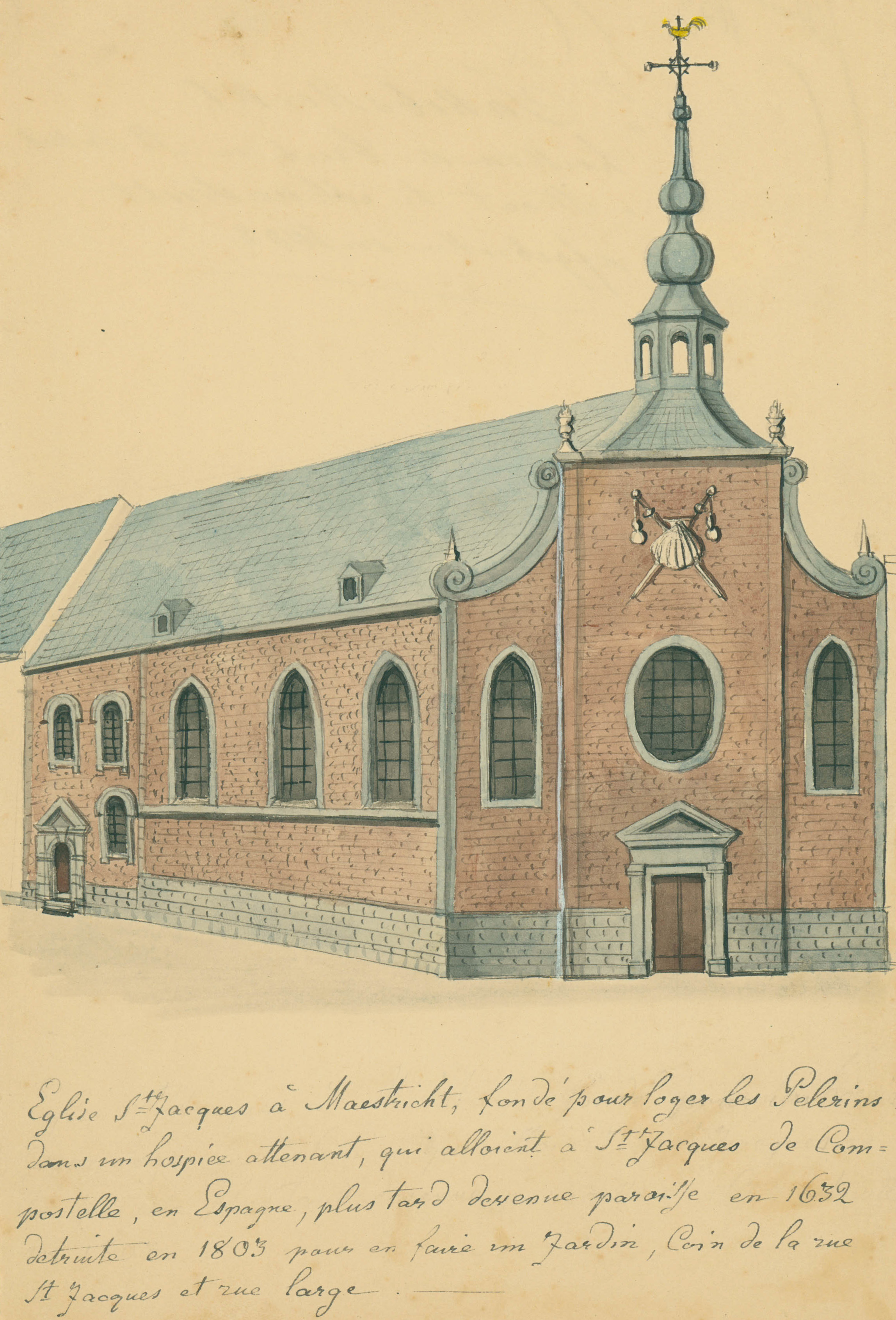 View of the former Chapel of Saint James in Maastricht, Netherlands. The church was originally built as the chapel of the Saint James Hospital, intended for pilgrims on their name to Santiago de Compostella. From ca 1632-1803 the building was used as a parish church for the RC parish of Saint John the Baptist, after the Catholics had been driven out of their own church. The drawing is a reconstruction of the church by Philippe van Gulpen (1792-1862), who was only 11 years old when the building was demolished.